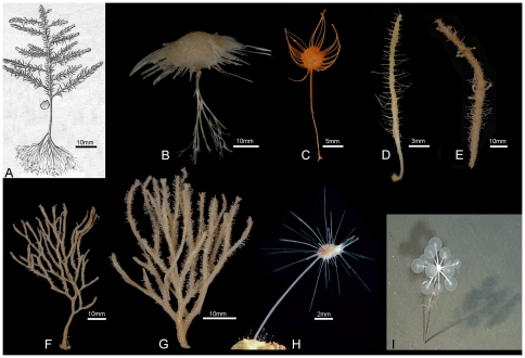 A. Cladorhiza abyssicola (from Fig. 17 in [172], scale approximate); B. Cladorhiza sp., undescribed species from West Norfolk Ridge (New Zealand EEZ), 757 m (NIWA 25834); C. Abyssocladia sp., undescribed species from Brothers Seamount (New Zealand EEZ), 1336 m (NIWA 21378); D. Abyssocladia sp., undescribed species from Chatham Rise (New Zealand EEZ), 1000 m (NIWA 21337); E. Abyssocladia sp., undescribed species from Seamount 7, Macquarie Ridge (Australian EEZ), 770 m (NIWA 40540); F. Asbestopluma (Asbestopluma) desmophora, holotype QM G331844, from Macquarie Ridge (Australian EEZ), 790 m (from Fig. 5A in [47]); G. Abyssocladia sp., undescribed species from Seamount 8, Macquarie Ridge (Australian EEZ), 501 m (NIWA 52670); H. Asbestopluma hypogea from [41]; I. Chondrocladia lampadiglobus (from Fig. 17A in [48]).